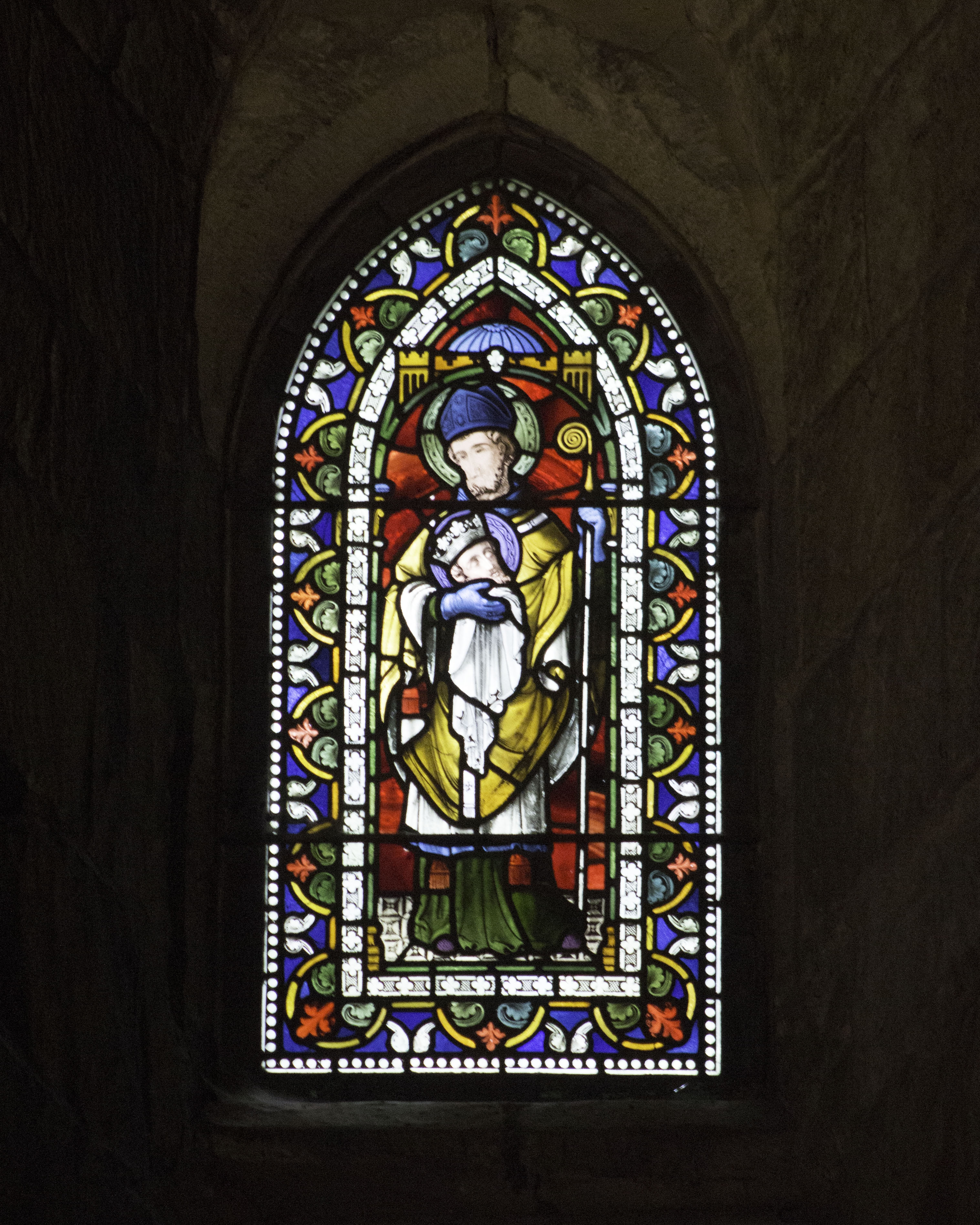 Stained glass window depicting St Cuthbert within the Priory Church of St Mary & St Cuthbert, Bolton Abbey